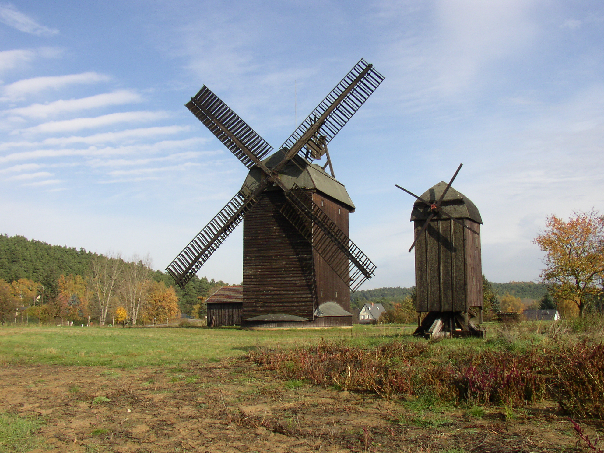 Windmill in the village Langerwisch (Bergholzer Straße)